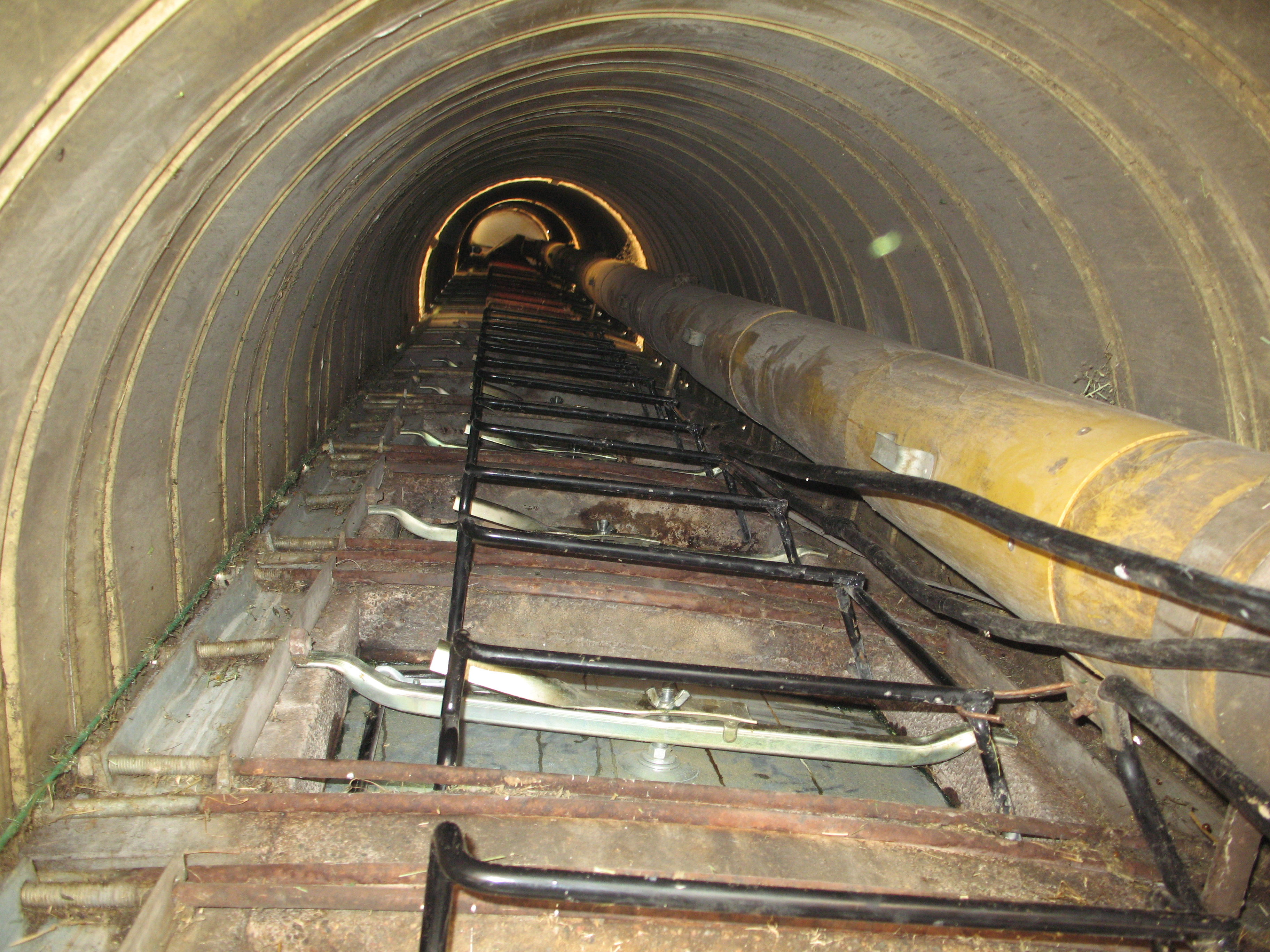 This is from the base of the silo looking straight up the column of silo doors. Due to the extremely limited space, the frame of each door forms two rungs of a steel ladder. – The exterior shroud is made from steel for fall protection, but has opaque fiberglass sections every 20 ft to allow ambient outdoor light into the tunnel. – On the right is the large black power cable for the silo unloader and the yellow silage drop tube used for unloading the silo. Along the length of the yellow drop tube are a series of access hatches to allow insertion of a silage drop spout.